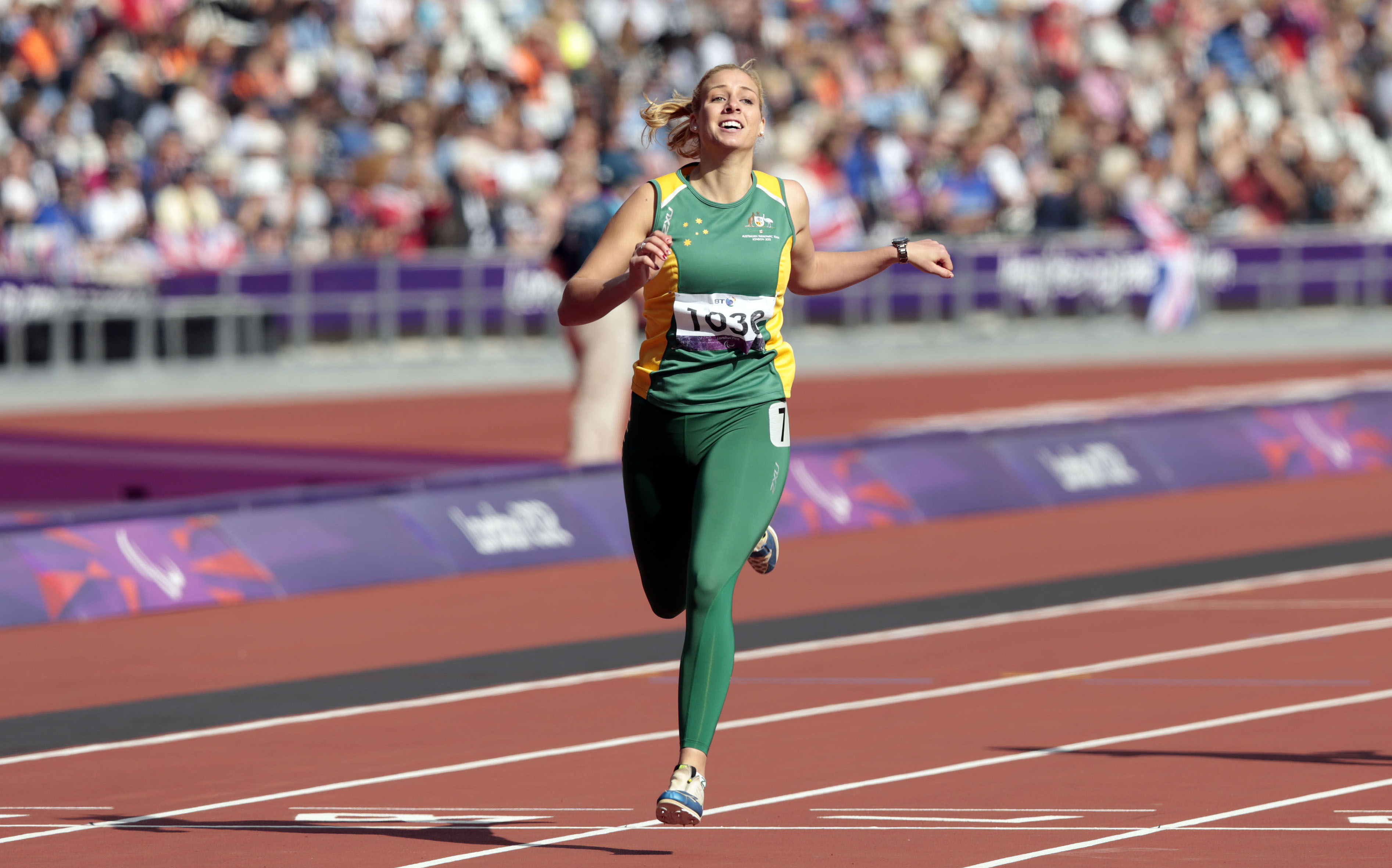 Photograph of Australian Paralympic team member Katy Parrish at the 2012 Summer Paralympic Games in London